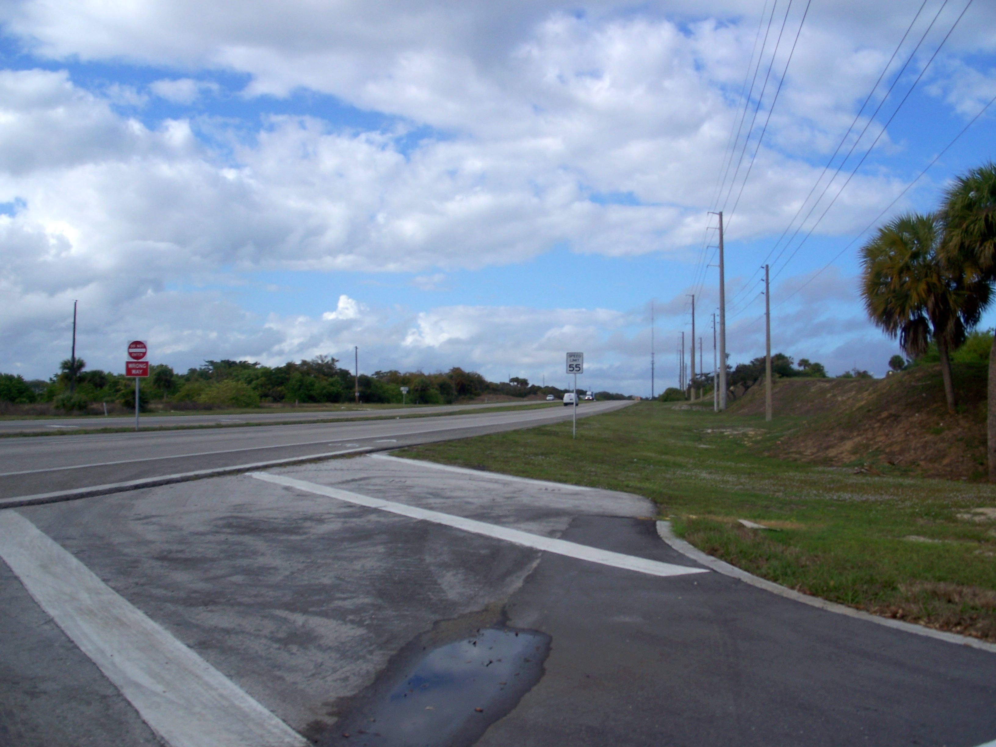 Fort Pierce, Florida: US 1 near Harbor Branch Oceanographic Institution, looking north